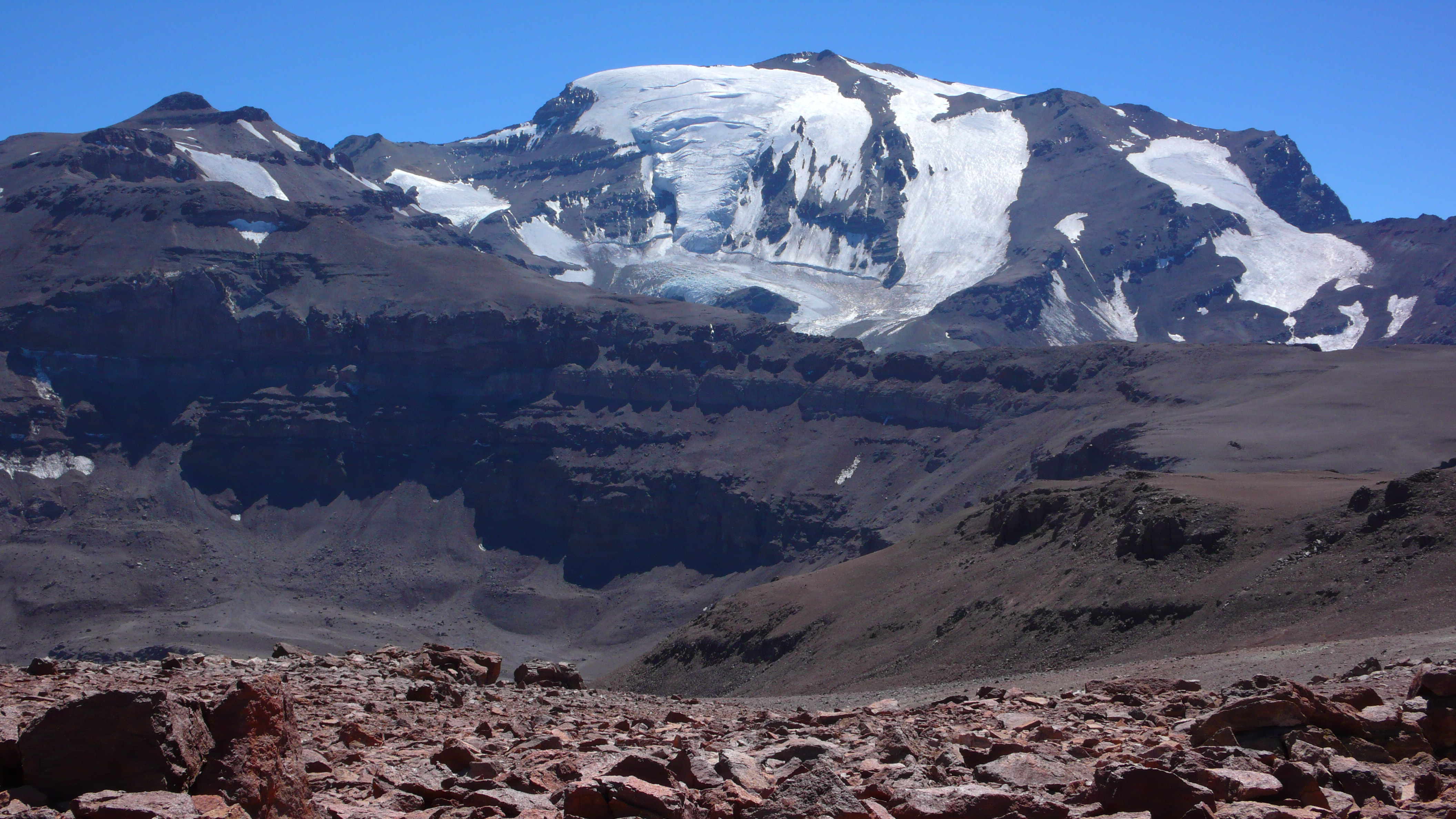 Cerro del Plomo (5,424m) from near El Pintor (approx. 4,200m), looking north-east. The peak to the left is Cerro Leonera (approx. 5,050m). The Cerro del Plomo (5,424m) is not to be confused with the Nevado El Plomo (6,070m), which lies on the border about 20km to the north-east. (Cf. John Biggar, The Andes — A Guide for Climbers, ISBN 0-9536087-2-7, p. 217; Hermann Kiendler, Die Anden — Vom Chimborazo zum Marmolejo — Alle 6000er auf einen Blick, ISBN 978-3-936740-36-3, pp. 349–352.)